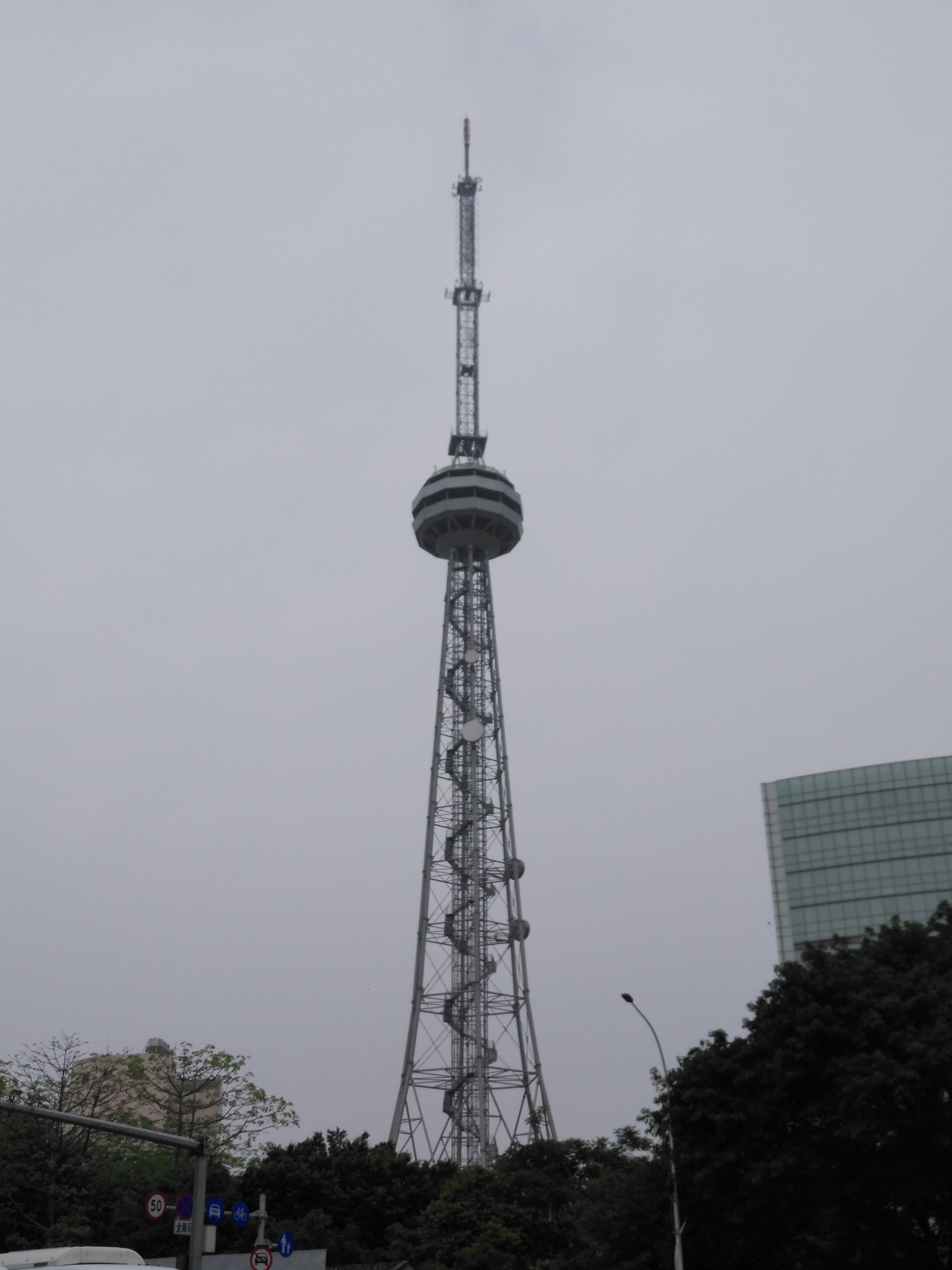 Shantou Radio Television Tower, located at No.48, Chaoshan Road, Jinping District, Shantou City, Guangdong Province, China.